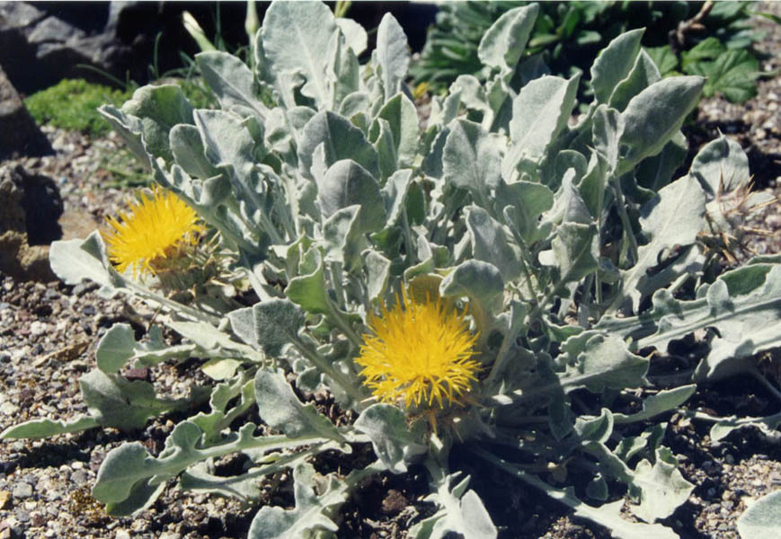 Centaurea chrysantha